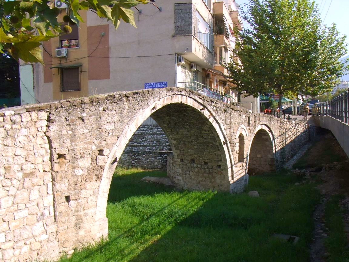 The Tanner's bridge